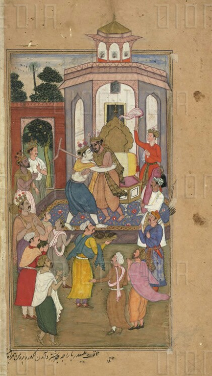 Inscribed beneath in Persian characters: ‘mulaqat-i balabhadar u rajah judishtar u amadan-iakrura u pardaman hamrah’ ... (the meeting of Yudhishthira and Balarama together with Akruraand Pardaman); and: ‘Hajji.’ Gouache on biscuit-coloured paper; manuscript leaf from the ‘Razmnama' Udhyogaparvan (Book of the Assembly). 207 by 110 mm (pavilion tower projecting into top margin); page 302 by 172 mm.Reverse: page of text written in 27 lines of ‘naskhi’ script within margin rules; foliated attop in red ‘222’. Balarama, dressed in a blue ‘dhoti,’ holds his plough over his shoulder. Yudhishthira risesfrom his throne which is set on a dais before a pavilion, as courtiers stand in a semi-circleand the Pandu brothers watch from the left.